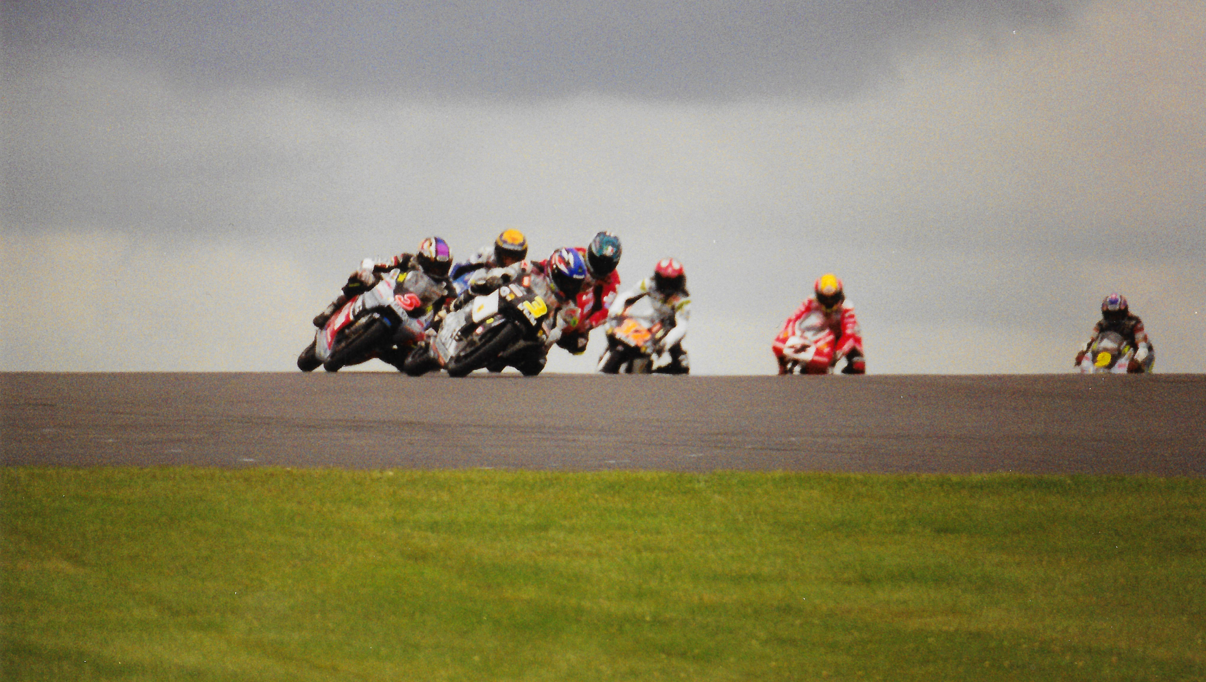 Masao Azuma, riding his 125cc Benetton Playlife Honda, leading the pack at the 2000 British Grand Prix.